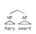 A structure of a small clause as a symmetric constituent, proposed by Citko 2011, and others